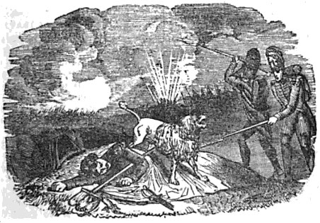 An engraving of Moustache, the French army poodle which accompanied an article about the dog in the 1836 publication of Tales of the wars; or, Naval and military chronicle (Volume 1) on page 109.